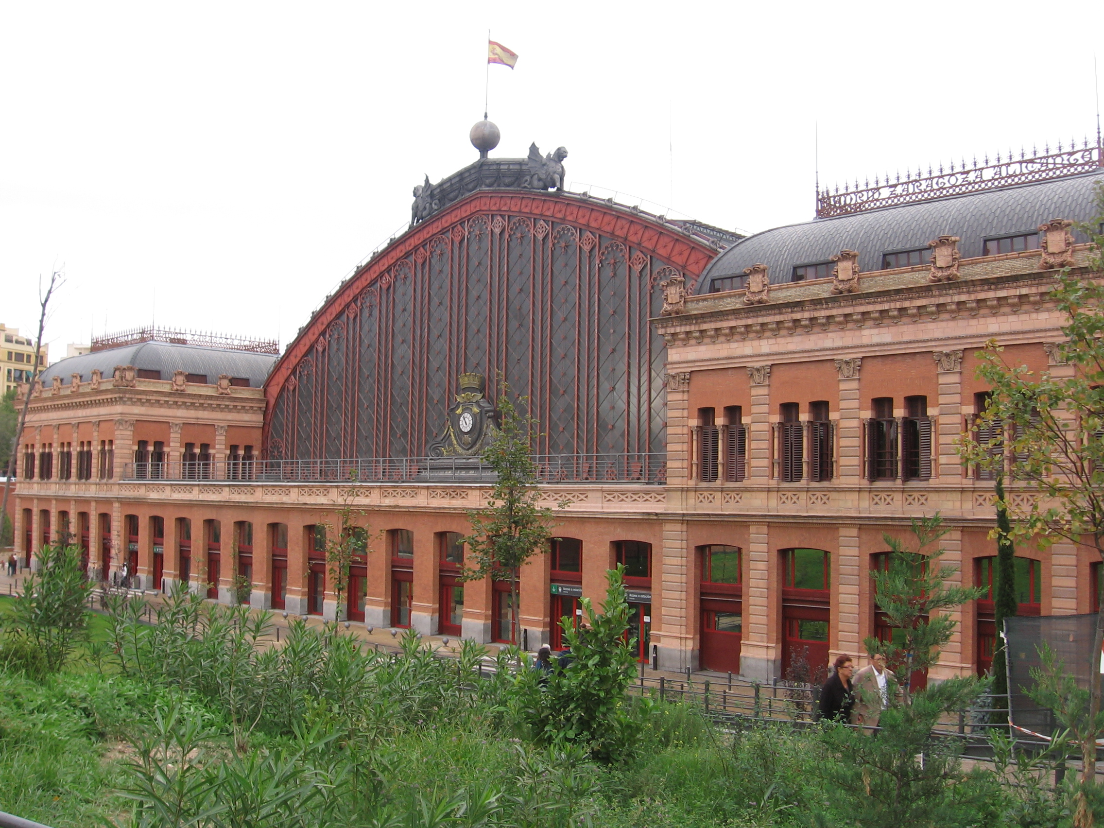 Atocha train station, Madrid: front of the old building.